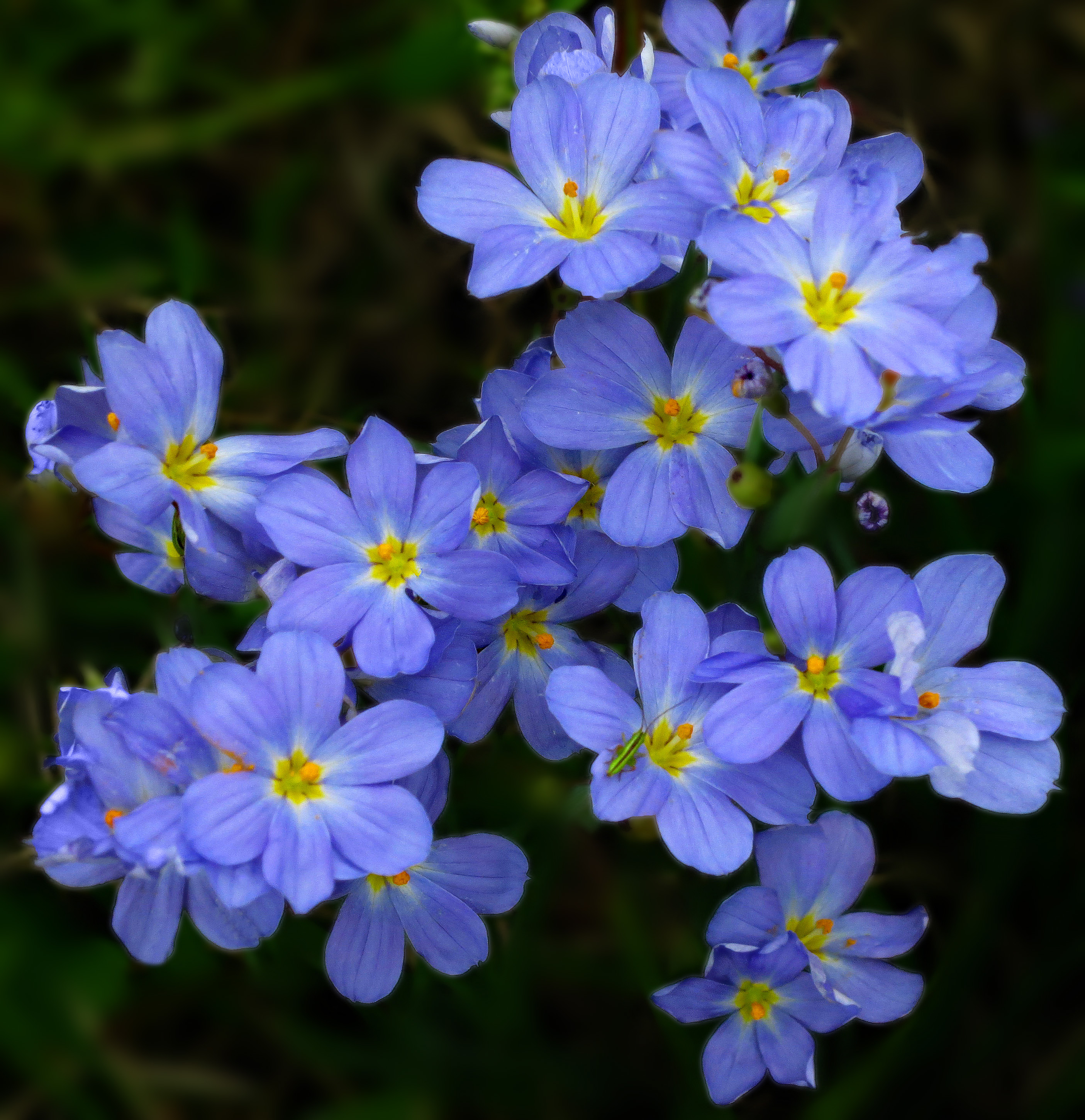 Blue Eyed Grass -- Sisyrinchium